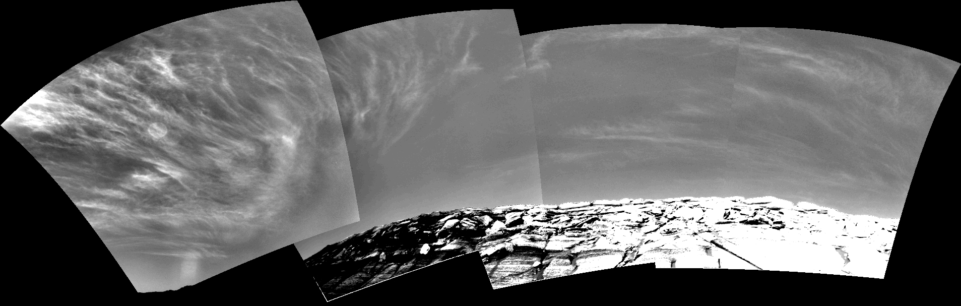 Clouds add drama to the sky above "Endurance Crater" in this mosaic of frames taken by the navigation camera on NASA's Mars Exploration Rover Opportunity at about 9:30 a.m. on the rover's 290th sol (Nov. 16, 2004). The view spans an arc from east on the left to the southwest on the right. These clouds are part of a band that forms near the equator when Mars is near the part of its orbit that is farthest from the Sun. For Opportunity (and Spirit and the rest of the southern hemisphere), this occurs in late fall and early winter. During this period, atmospheric temperatures and the amount of water vapor combine to form large-scale clouds. These clouds look like Earth's cirrus clouds and share other similarities with cirrus clouds in that they are believed to be composed entirely of water-ice particles with sizes on the order of several micrometers (a few ten-thousandths of an inch). The images that are combined to produce this view have been processed to remove geometrical distortion associated with the camera's 45-degree field of view. In addition, special image processing has been applied to enhance the clouds and make them visible across the entire mosaic. The rim of Endurance was processed using the same technique, illustrating how much enhancement was done. Glare from the Sun washed out the clouds on the left in the original images; this glare was removed.